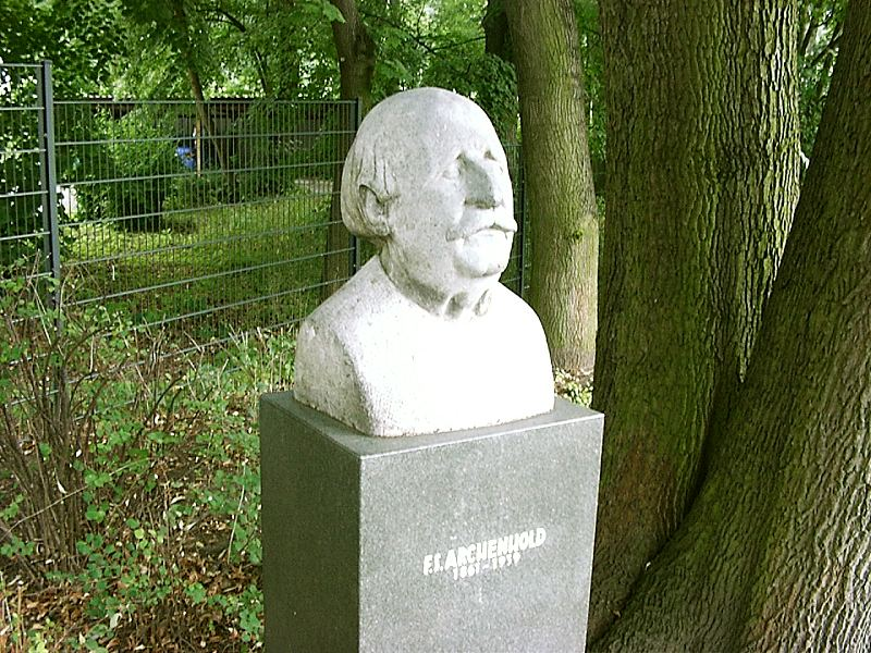 Bust of Friedrich Simon Archenhold in front of the Archenhold Sternwarte (Archenhold observatory) in Berlin